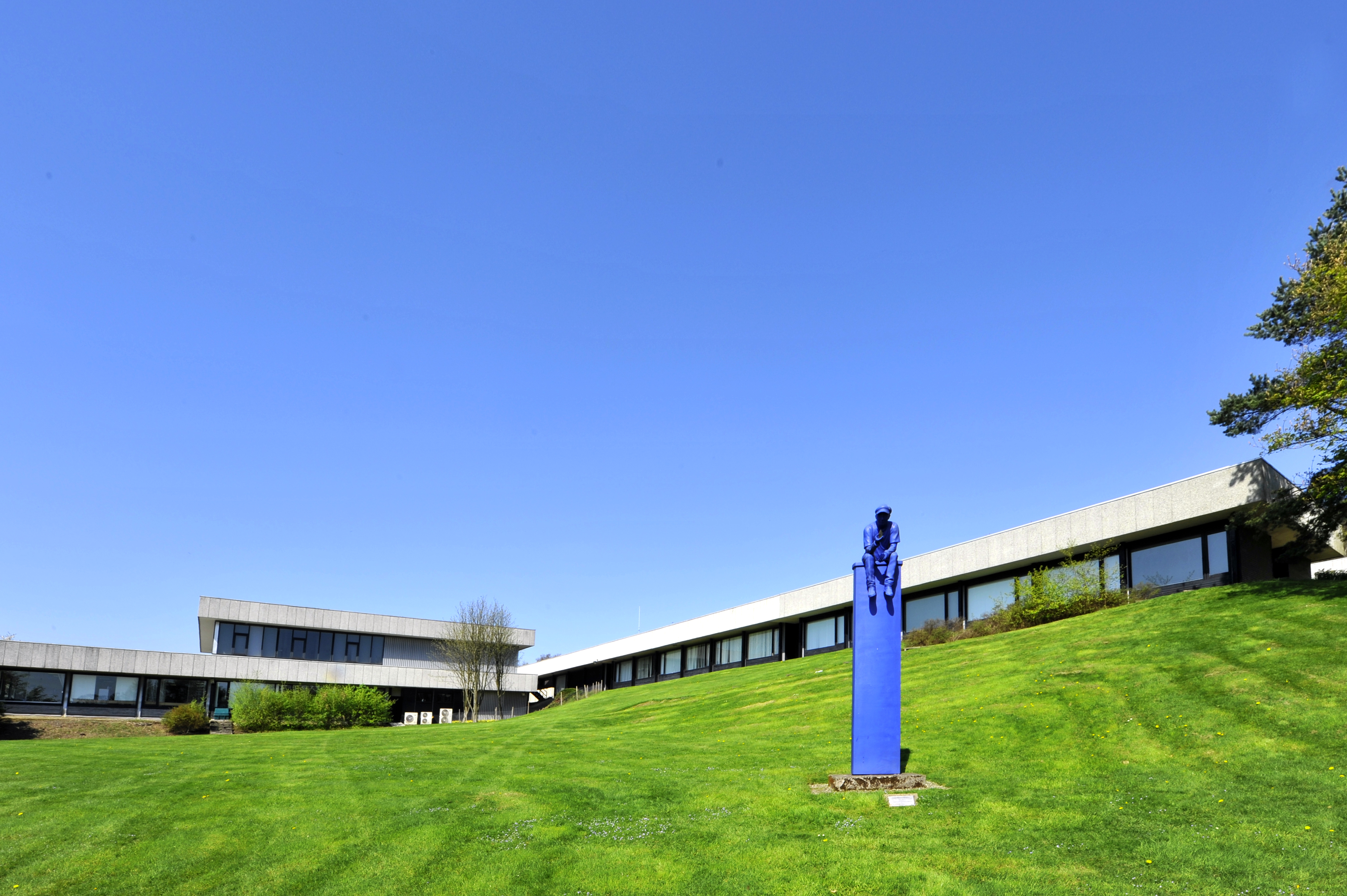 The Blue Boy statue outside the Pathfoot Building